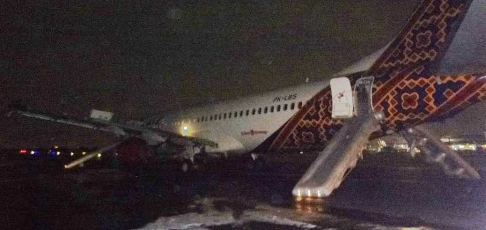 Batik Air PK-LBS damage